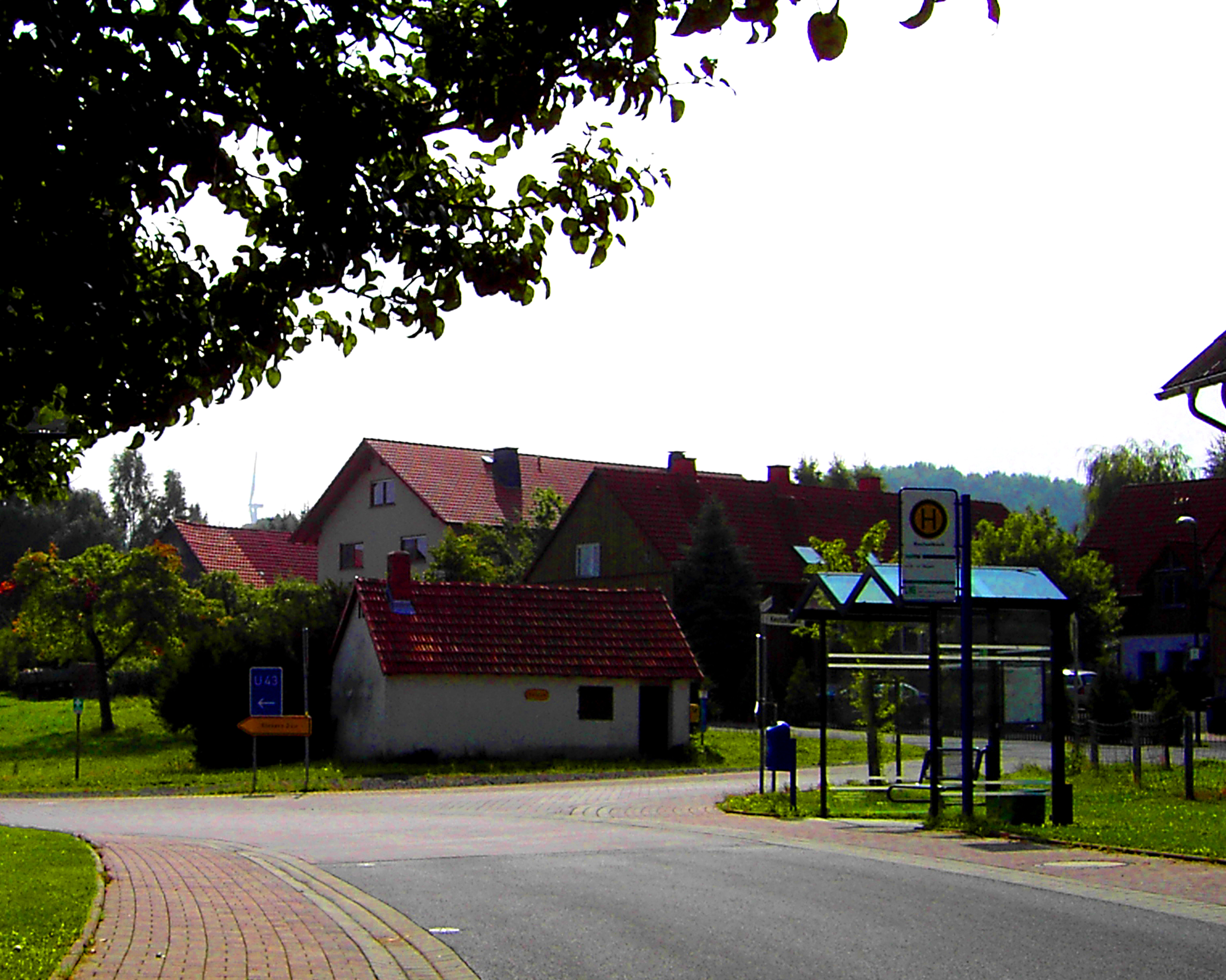 Keutzelbuch (LK FD), Germany